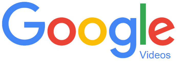 Logo of Google Videos